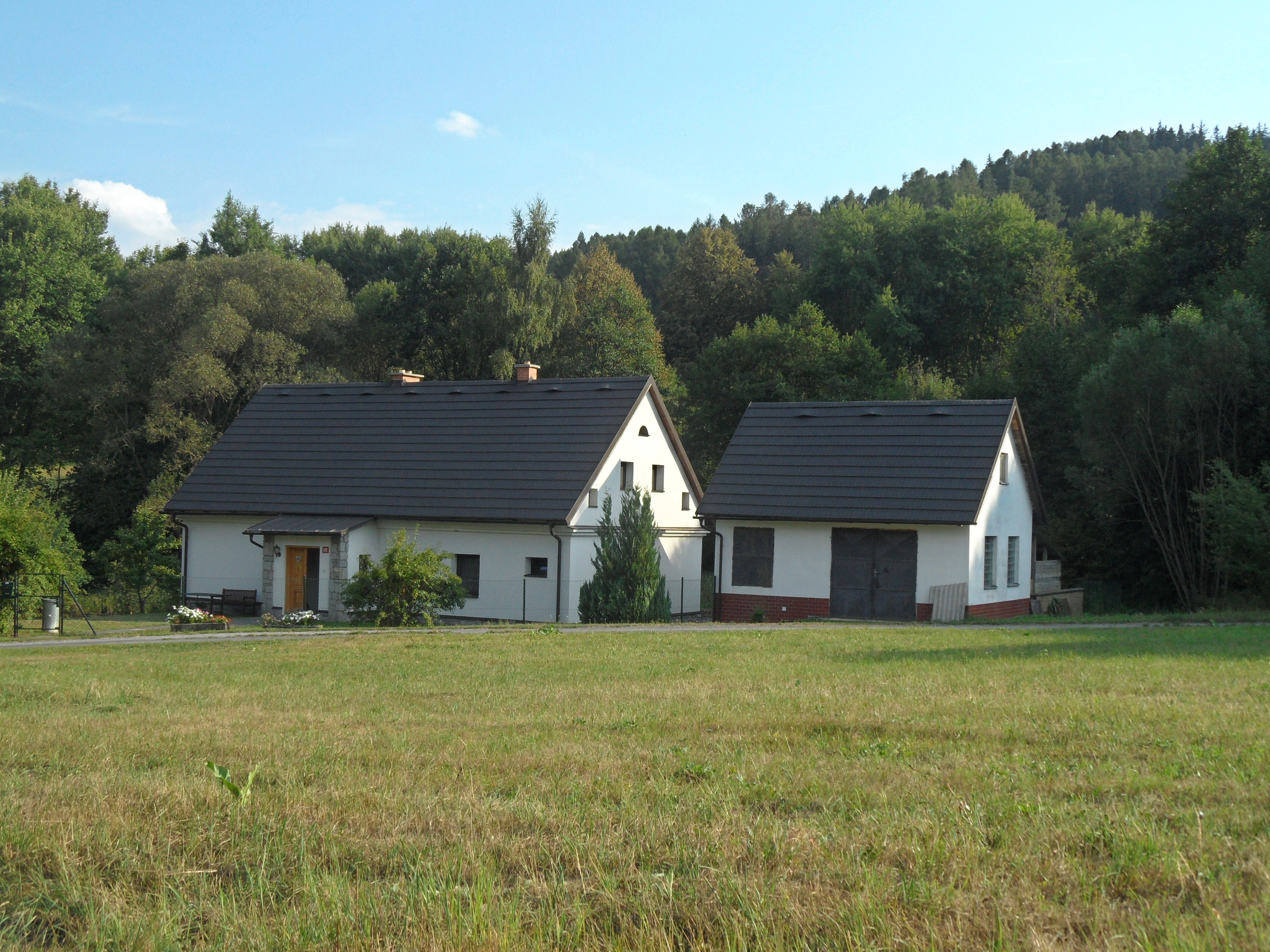 Ludvíkov (Velké Losiny): Family House. Šumperk District, the Czech Republic